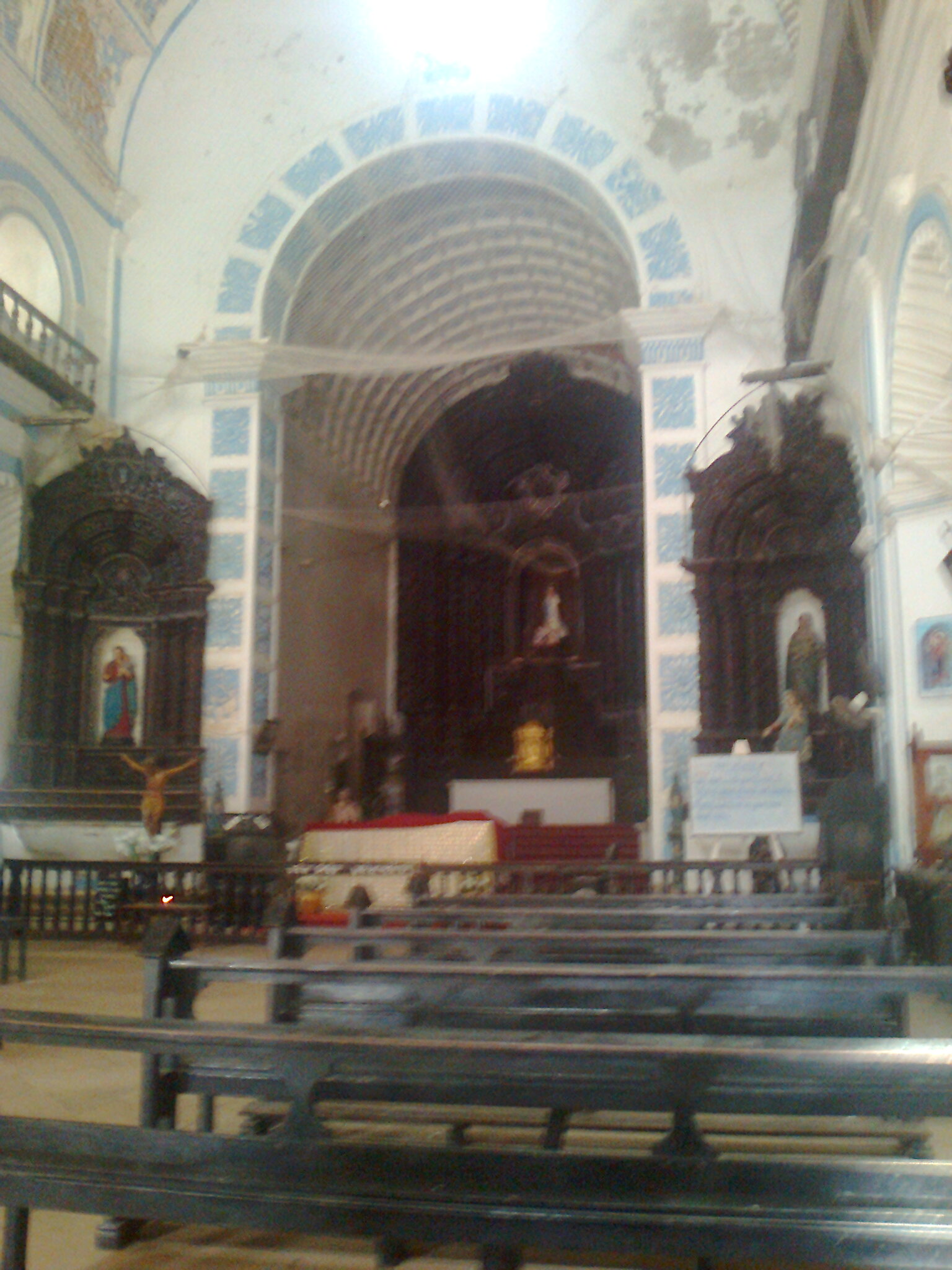 Construction at the time I went took away the charm when I went there in August 2012.